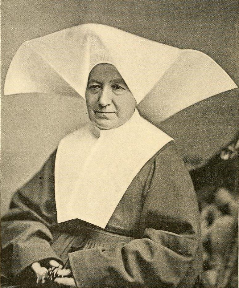 An older white woman wearing a religious sister's habit, with a wide white wimple; she is holding rosary beads.